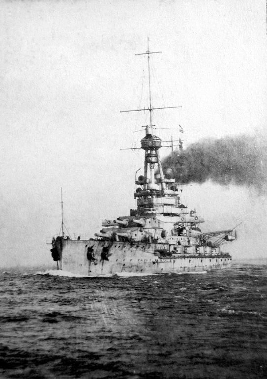 German Bayern class battleship SMS Baden